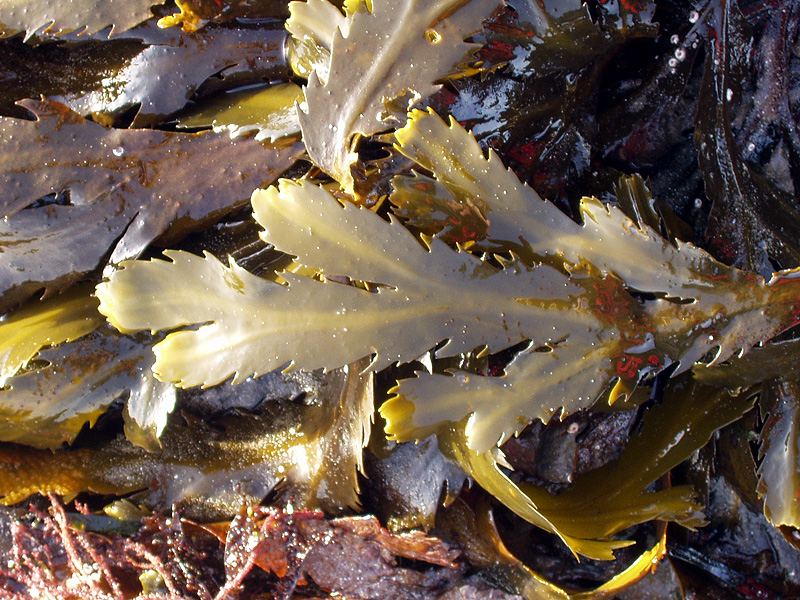 Fucus serratus, taken by Stemonitis at Rhoscolyn, Anglesey, Wales on the 3rd of January 2006.